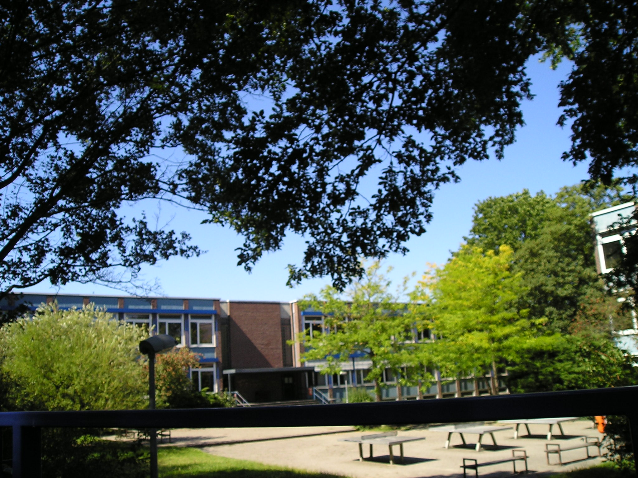 Gymansium Koblenzer Straße in Düsseldorf: schoolyard for 5th and 6th grade